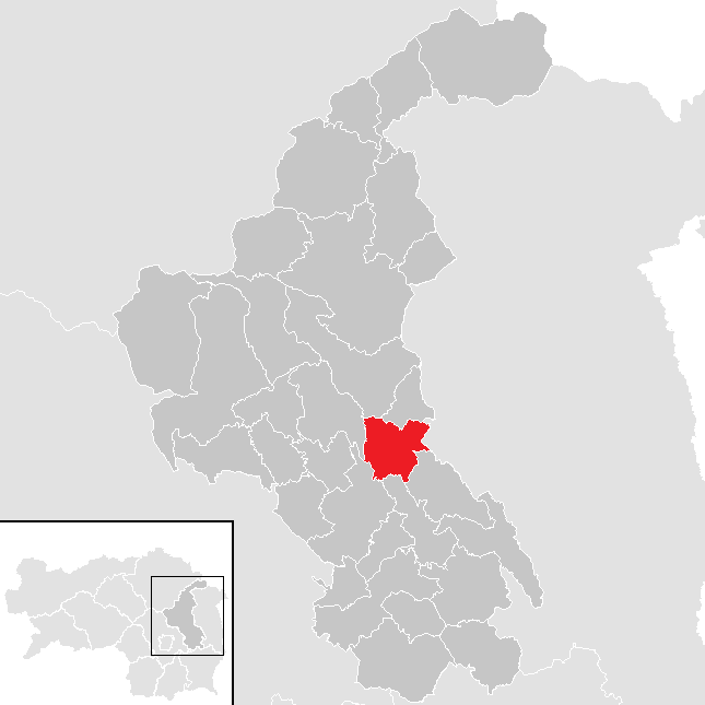 district Weiz